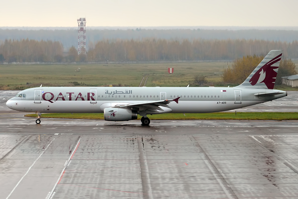 Qatar Airways, A7-ADS, Airbus A321-231